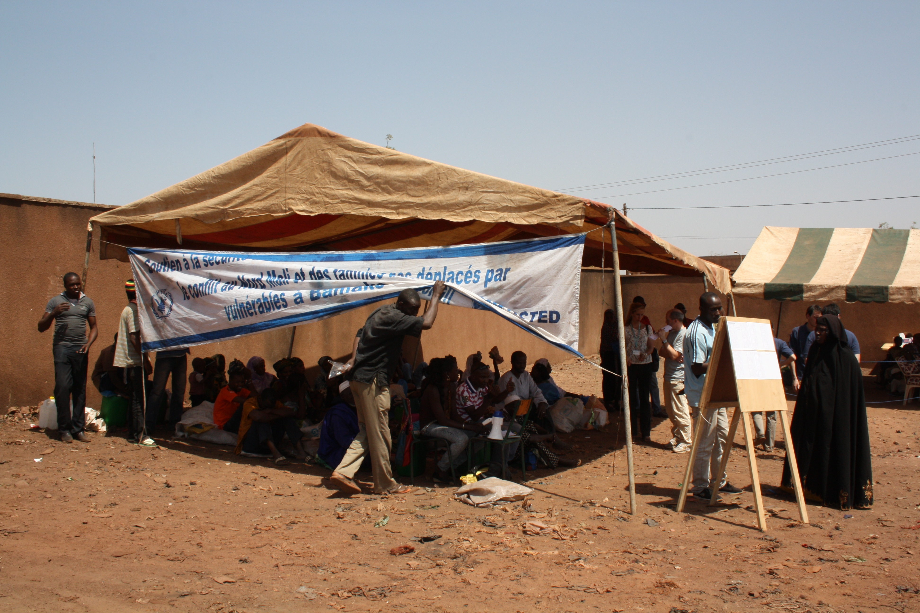 Over 380,000 men, women and children have so far been displaced by the Mali conflict since March of last year, of which over 210,000 have been internally displaced and over 160,000 have sought refuge in neighbouring countries. Britain was one of the first countries to respond directly to the recent escalation in violence, and is supporting tried and trusted humanitarian agencies to provide food, urgent medicine and clean water inside Mali, as well as provide a comprehensive package of support to refugees in Burkina Faso, Mauritania and Niger. Since the beginning of 2013, the UK has contributed £13 million of humanitarian aid to the Malian crisis, supporting over 400,000 Malians. This package of support is part of a £78 million humanitarian contribution to the Sahel region over the last year. Photo: Derek Markwell/DFID